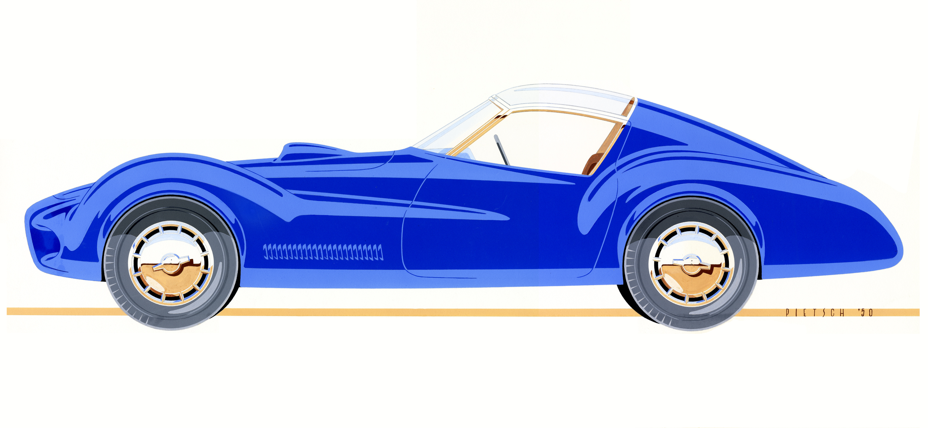 The original drawing has been donated to the Museum of Fine Arts, Boston, but the image posted here was made by me, T. W. Pietsch III. Please see the correspondence below from Jennifer C. Riley, Head of Image Licensing and Digital Archives Museum of Fine Arts, Boston. You may tell them that while the Museum of Fine Arts, Boston owns the artwork; we do not retain the copyright to Theodore Wells Pietsch II’s images. Best, Jennifer Jennifer Riley Head of Image Licensing and Digital Archives Museum of Fine Arts, Boston | 617-369-3777 Dear Mr. Pietsch, Regarding copyright, you retain copyright to any photos you took of the drawings made by your father. The copyright to the artworks and photographs does not revert to the Museum automatically upon donation of the works. The copyright to the photographs that you took stays with you so you have every right to upload those photos to Wikipedia. I am happy to provide you with language necessary for you to pass on to Wikipedia so you can reload the images. Since the Museum does not, in fact, hold the copyright to those photos, we cannot upload them. Best, Jennifer Jennifer Riley Head of Image Licensing and Digital Archives Museum of Fine Arts, Boston | 617-369-3777